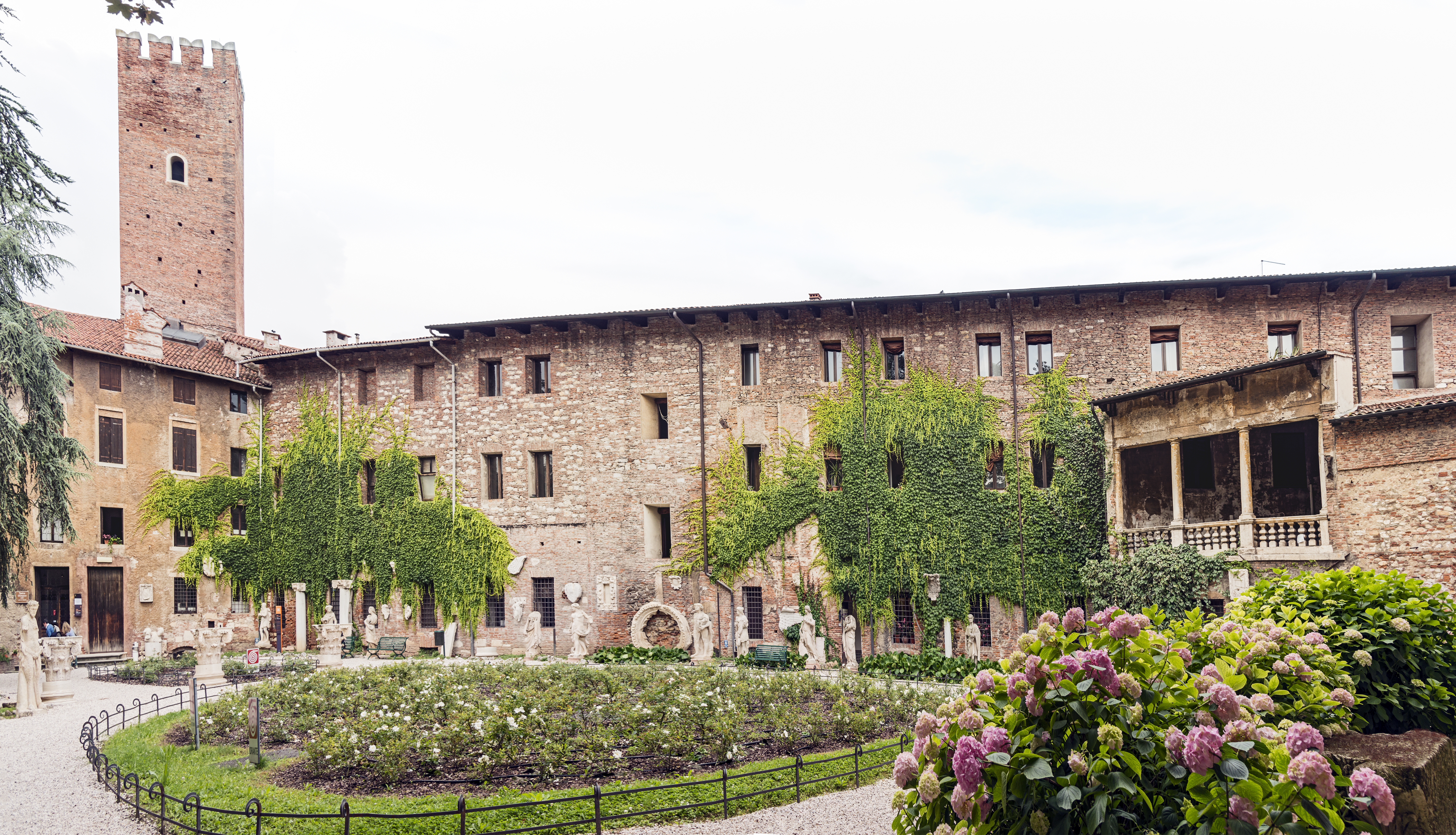 Teatro Olimpico. Theater located in Vicenza, designed in 1580 by the architect of the Renaissance Andrea Palladio. View of the courtyard and the Coxina Tower.